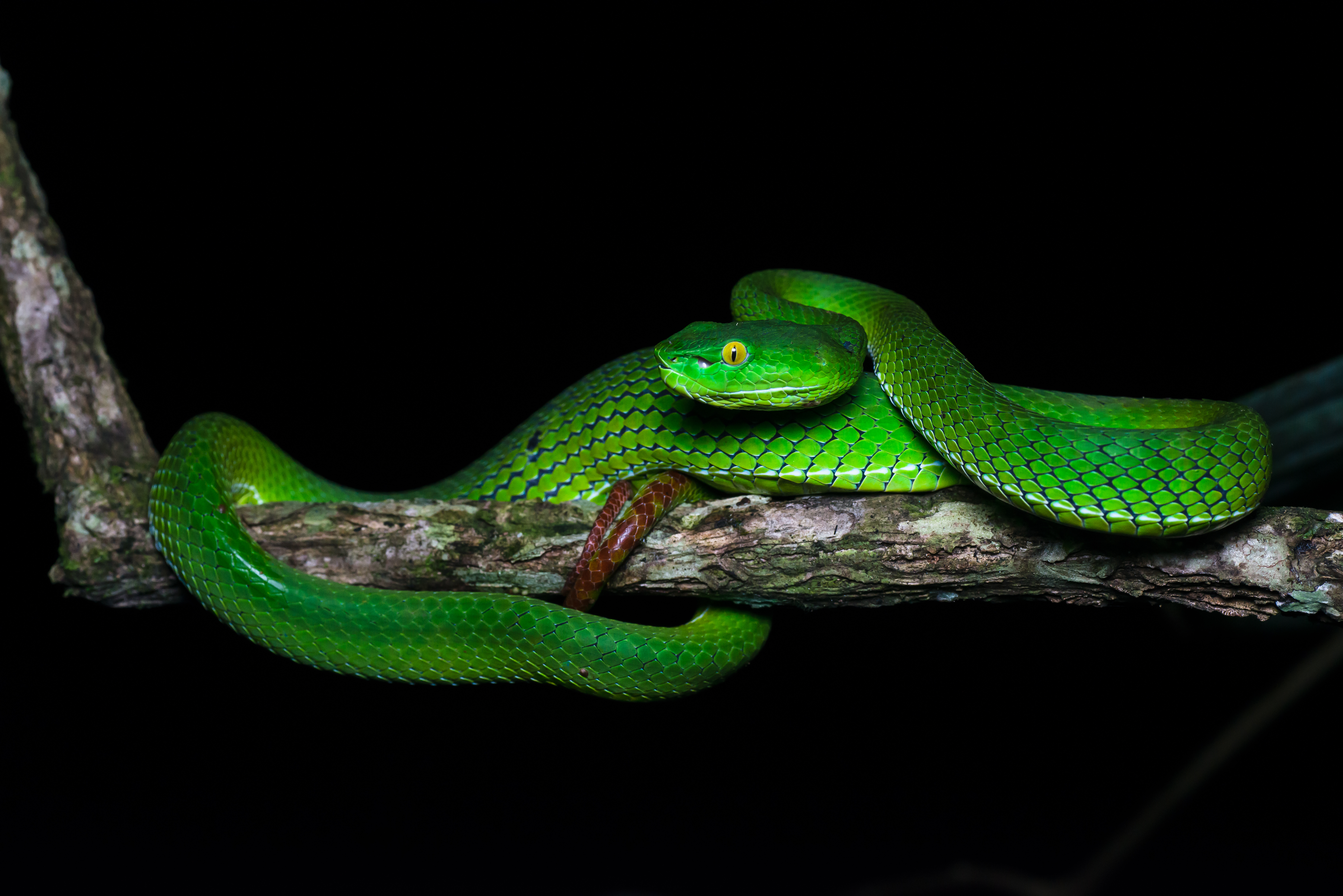 Female Trimeresurus gumprechti, Gumprecht’s green pit viper - Phu Hin Rong Kla National Park. Photo by Thai National Parks